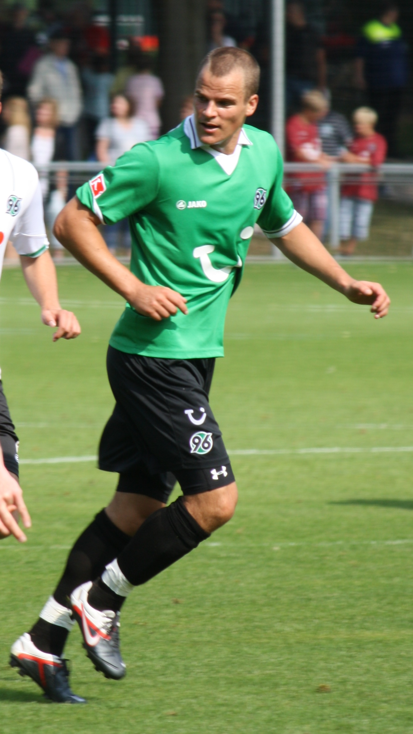 H. Hauger player Hanover 96